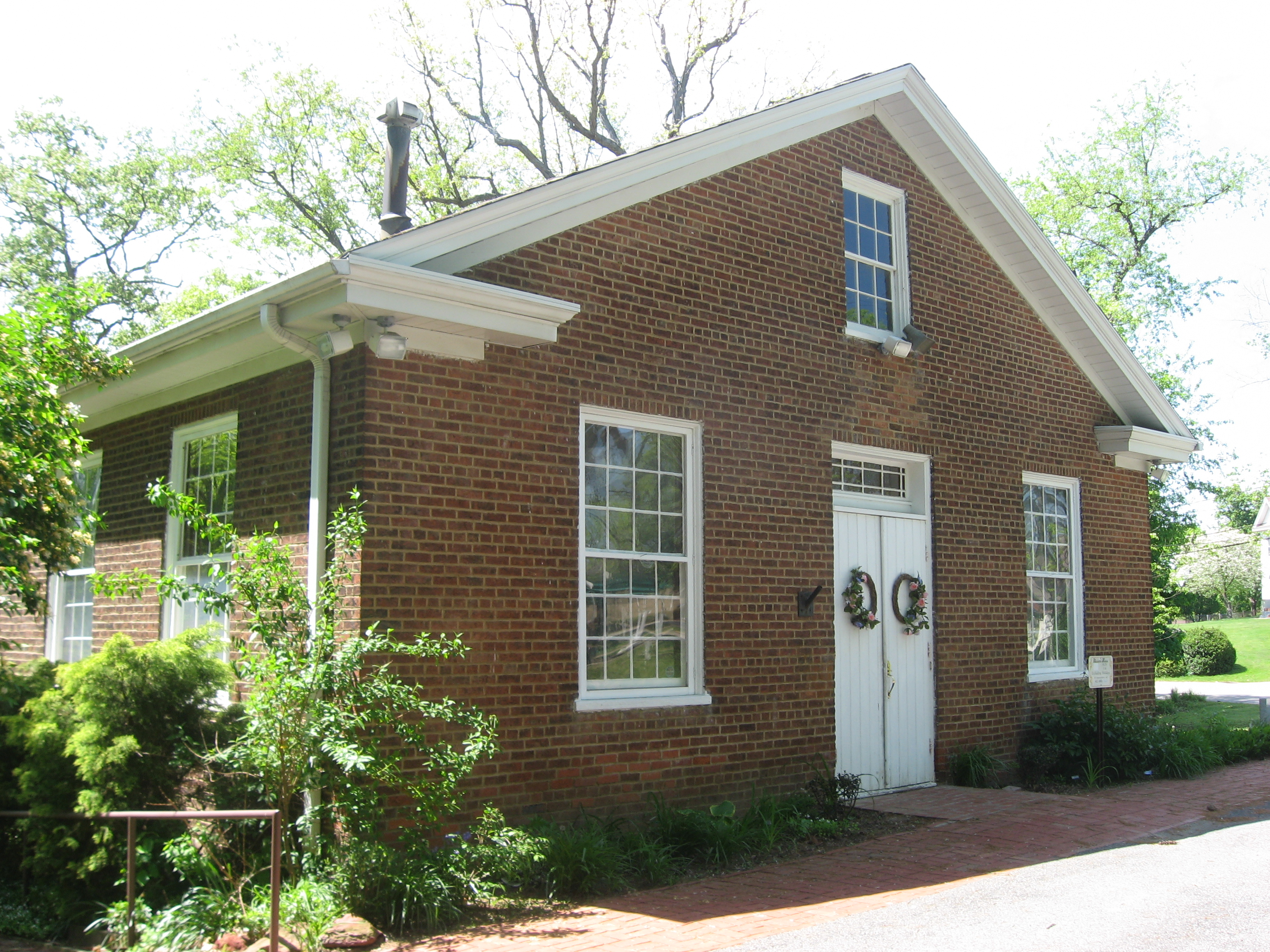 Front of the former Pine Creek Reformed Presbyterian Church (now the Depreciation Lands Museum), located at 4743 S. Pioneer Road in Hampton Township, Allegheny County, Pennsylvania, United States. It was built in 1835.